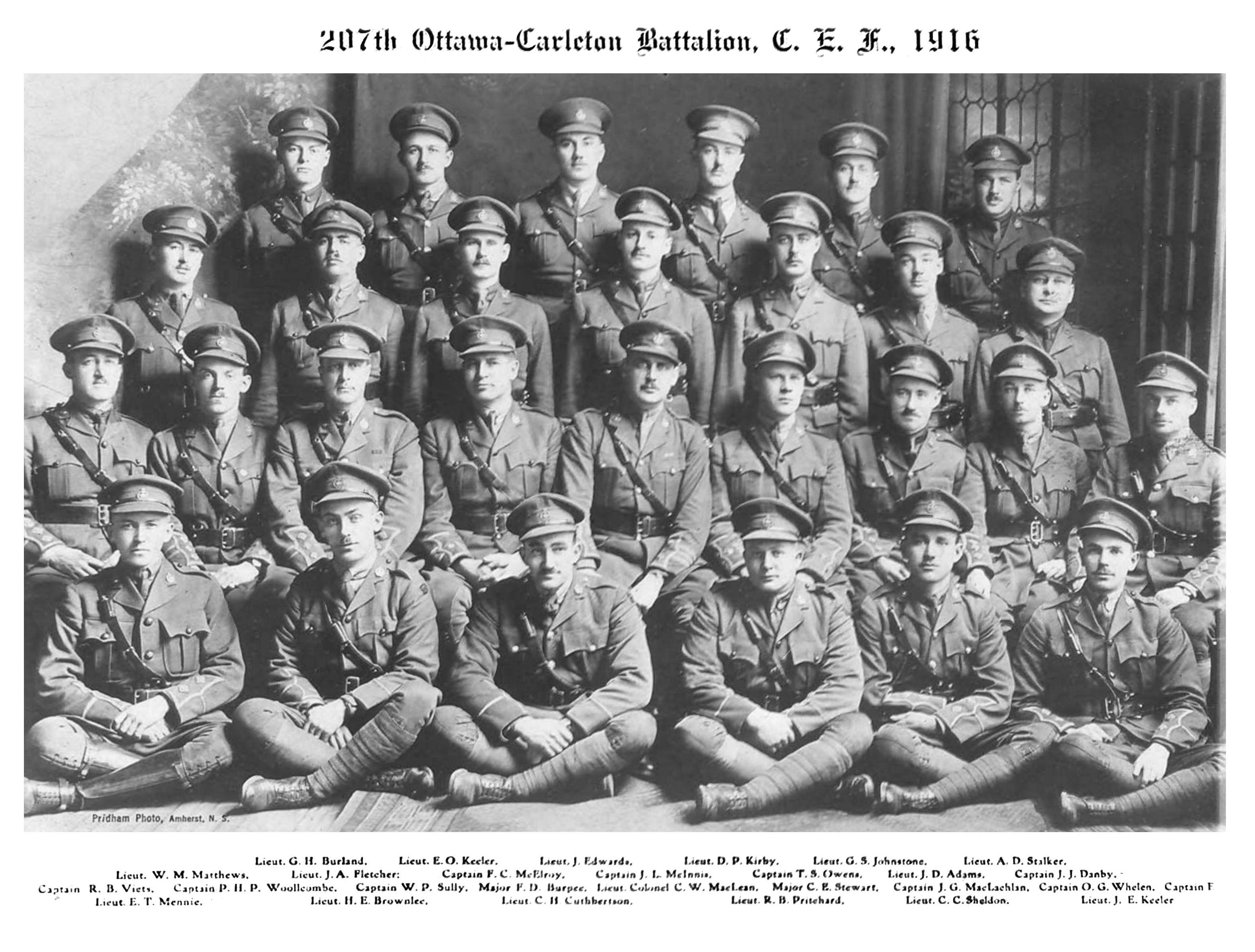 Photo of Officers of the 207th Ottawa and Carleton Battlion, CEF